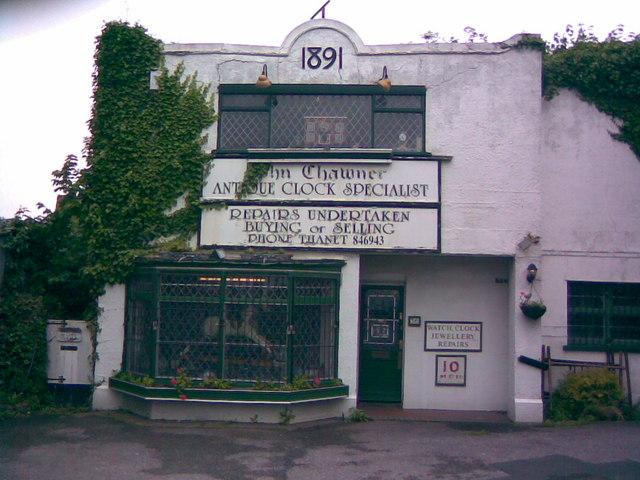 John Chawner Antique Clock Specialist This exquisite antiques shop, dating from 1891, is located a little east of Birchington station, adjacent to the footbridge over the railway just beyond it. As you can see, it is rather overgrown with ivy, but apart from that it seems quite well maintained. The shop is filled with antiques of all kinds - clocks, rocking horses (one of which you can just see in the photo) and models of ships, trains, etc. The view is looking north, with the railway in a cutting behind the shop.